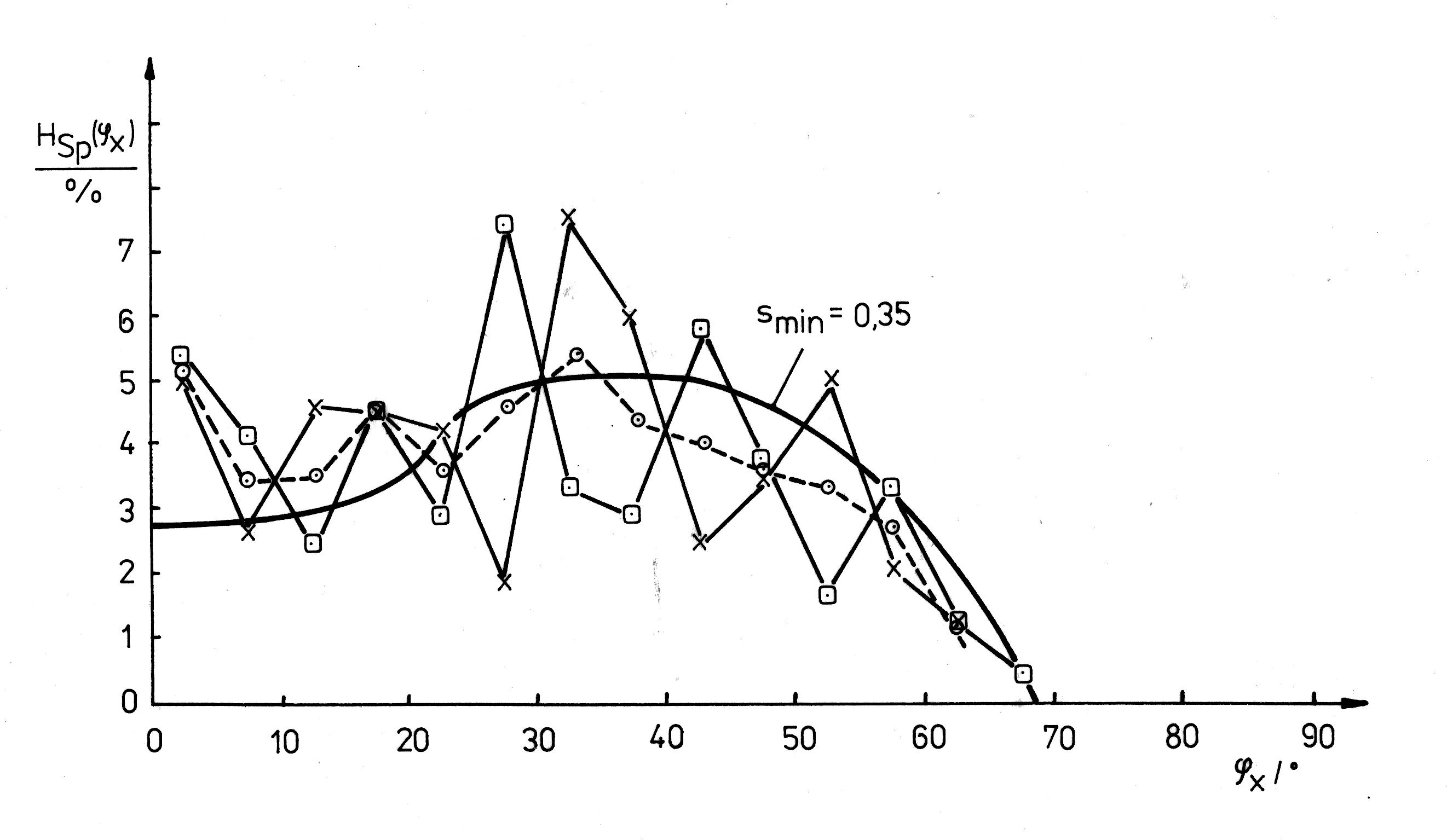 Summary of the distribution the azimutes of glide traces directly measured with TEM. Austenitic steel.